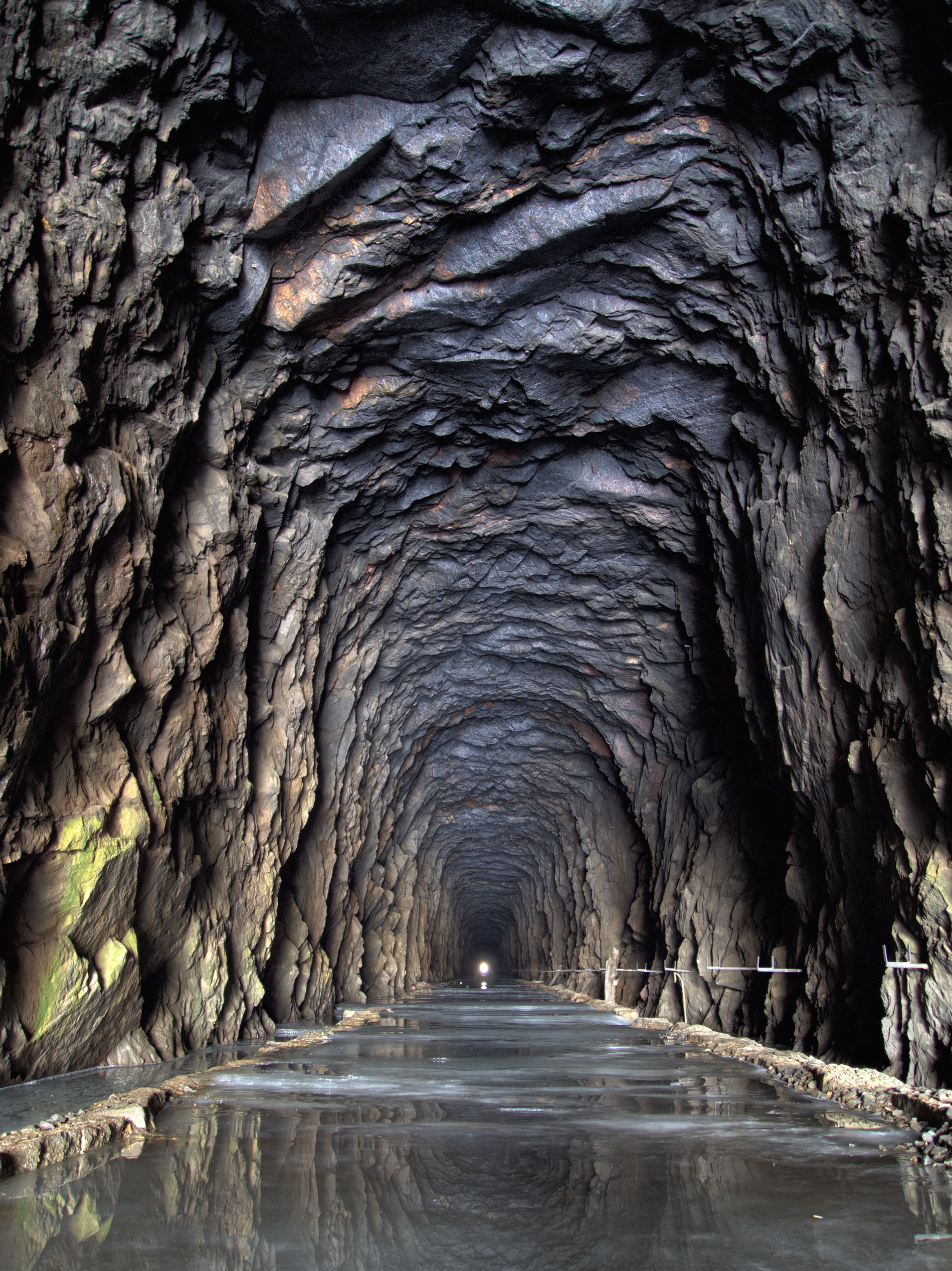 Abandoned Pönttövuori railway tunnel. It has been built between years 1914–1917.